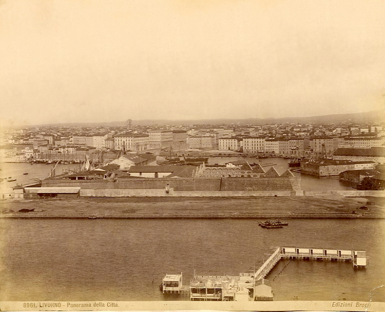 Brogi, Carlo (1850-1925), "Livorno - View of the town". Catalogue # 8951.